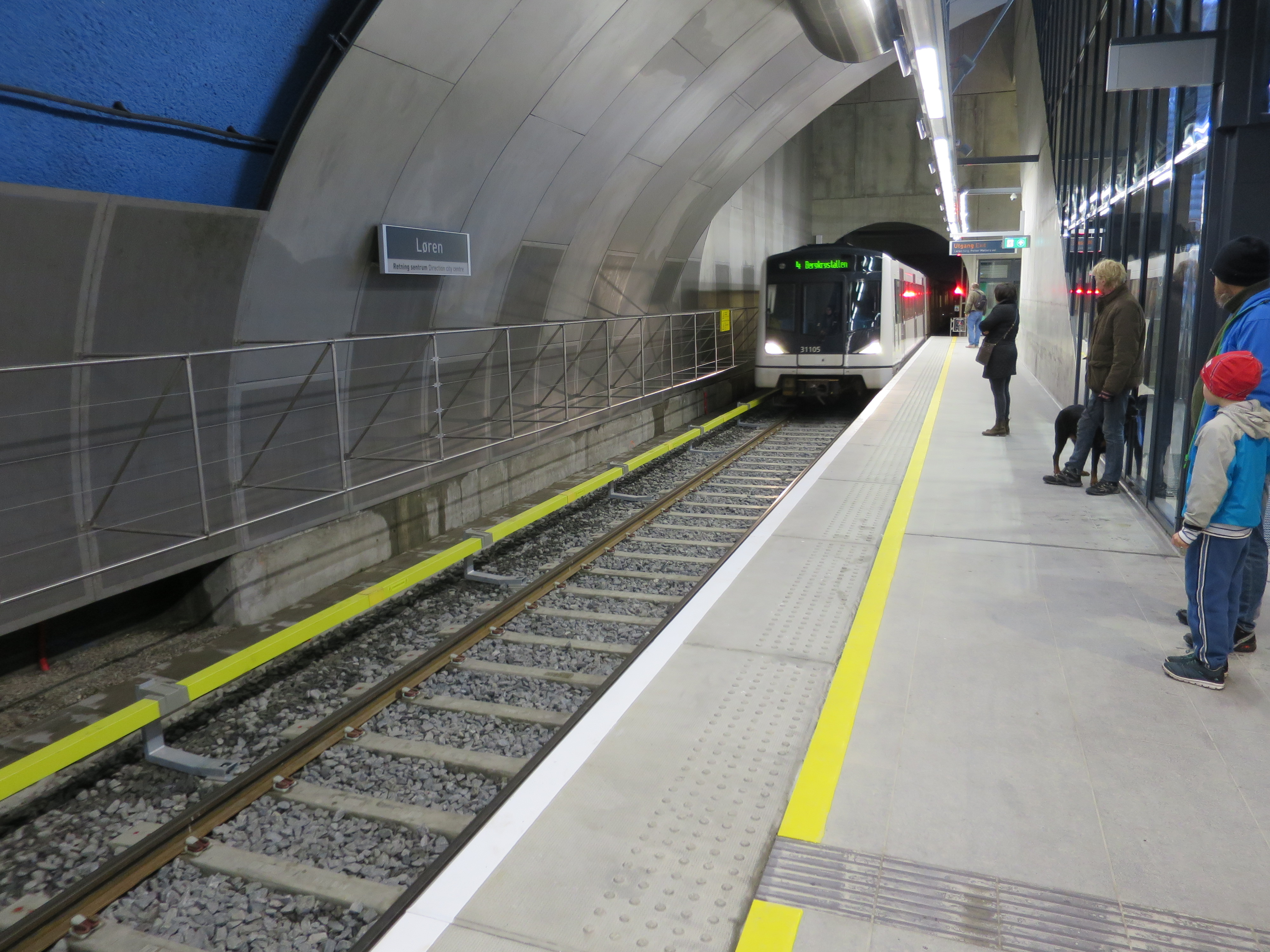 Løren subway station, Oslo, Norway, an underground rapid transit station of the Oslo Metro. Opened in April 2016 it is the newest on the subway network.